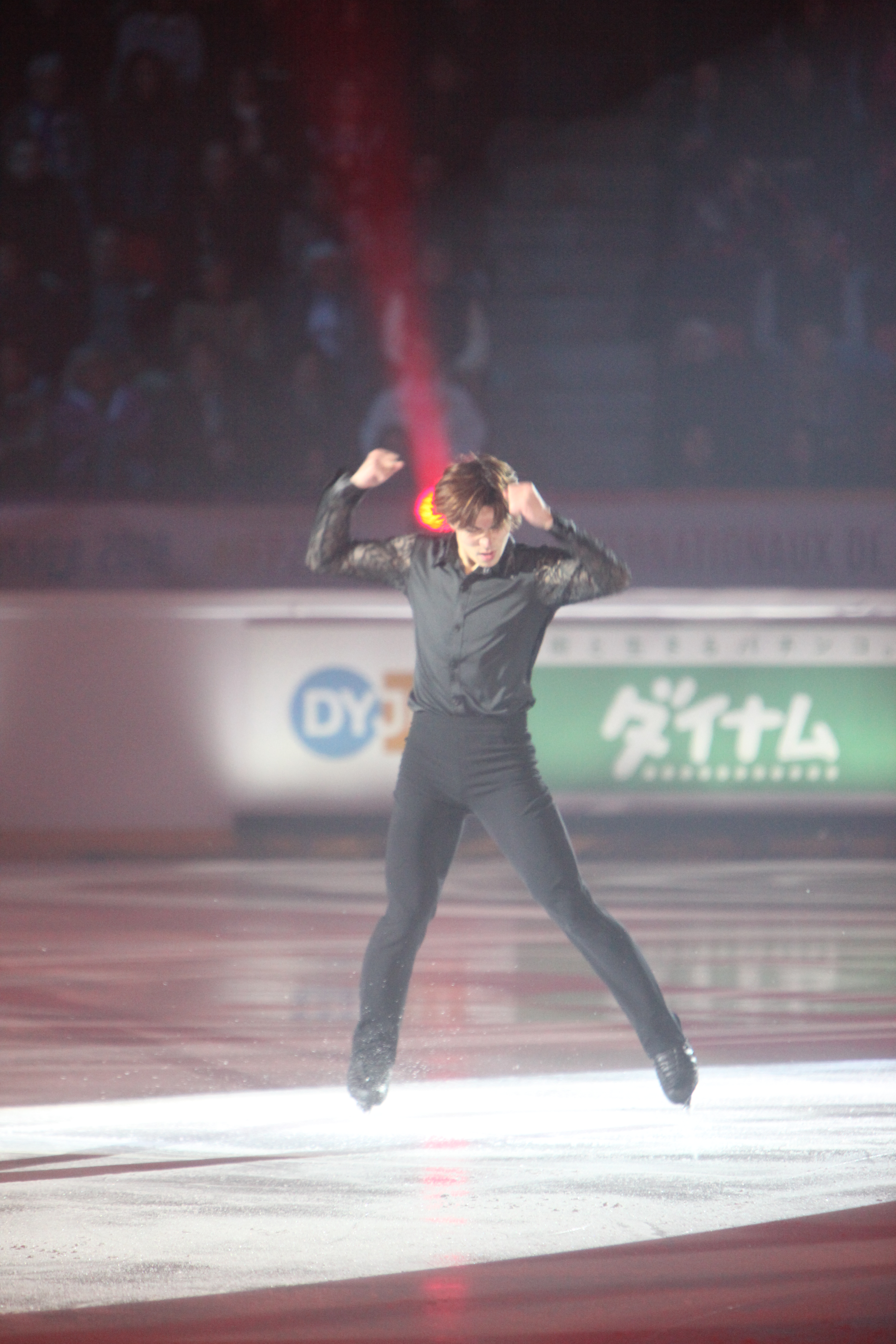 Keiji Tanaka during the gala at the Internationaux de France de Patinage 2018.